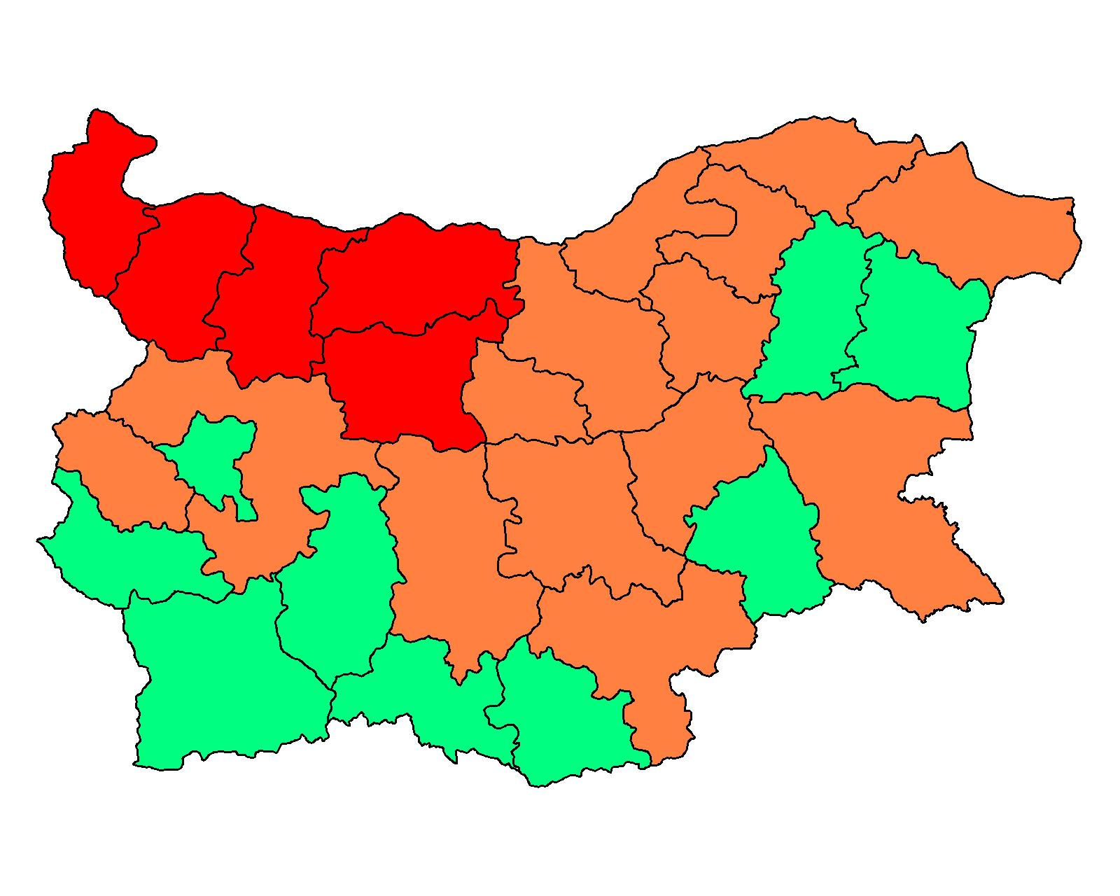 Rabies distribution in Bulgaria 1988 - 1994